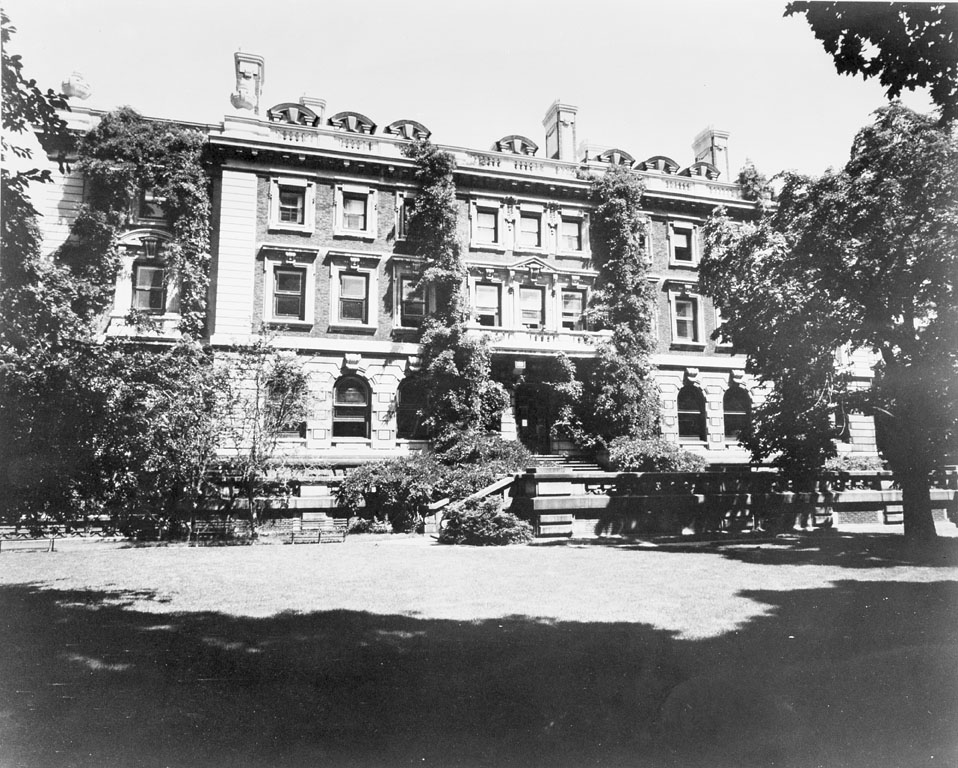 1976. The Carnegie Mansion, built between 1898-1902, underwent major renovation in order to become the new home of the Cooper-Hewitt Museum of Decorative Arts and Design.